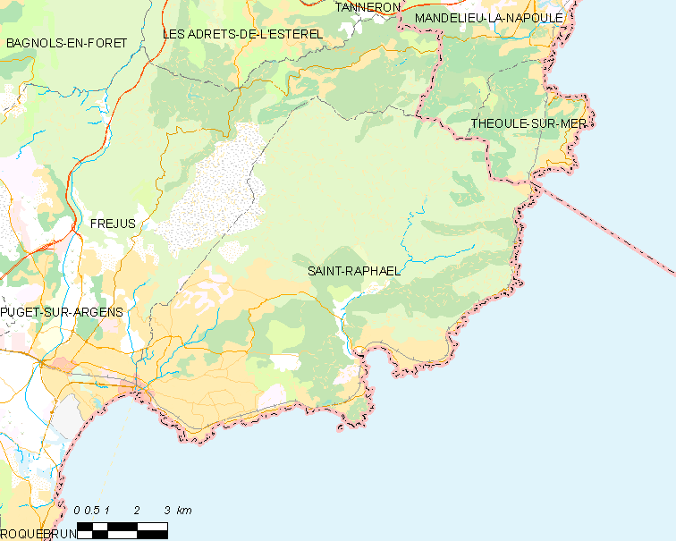 Map of French municipality Saint-Raphaël